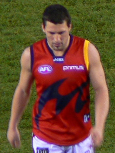 "Robbo"